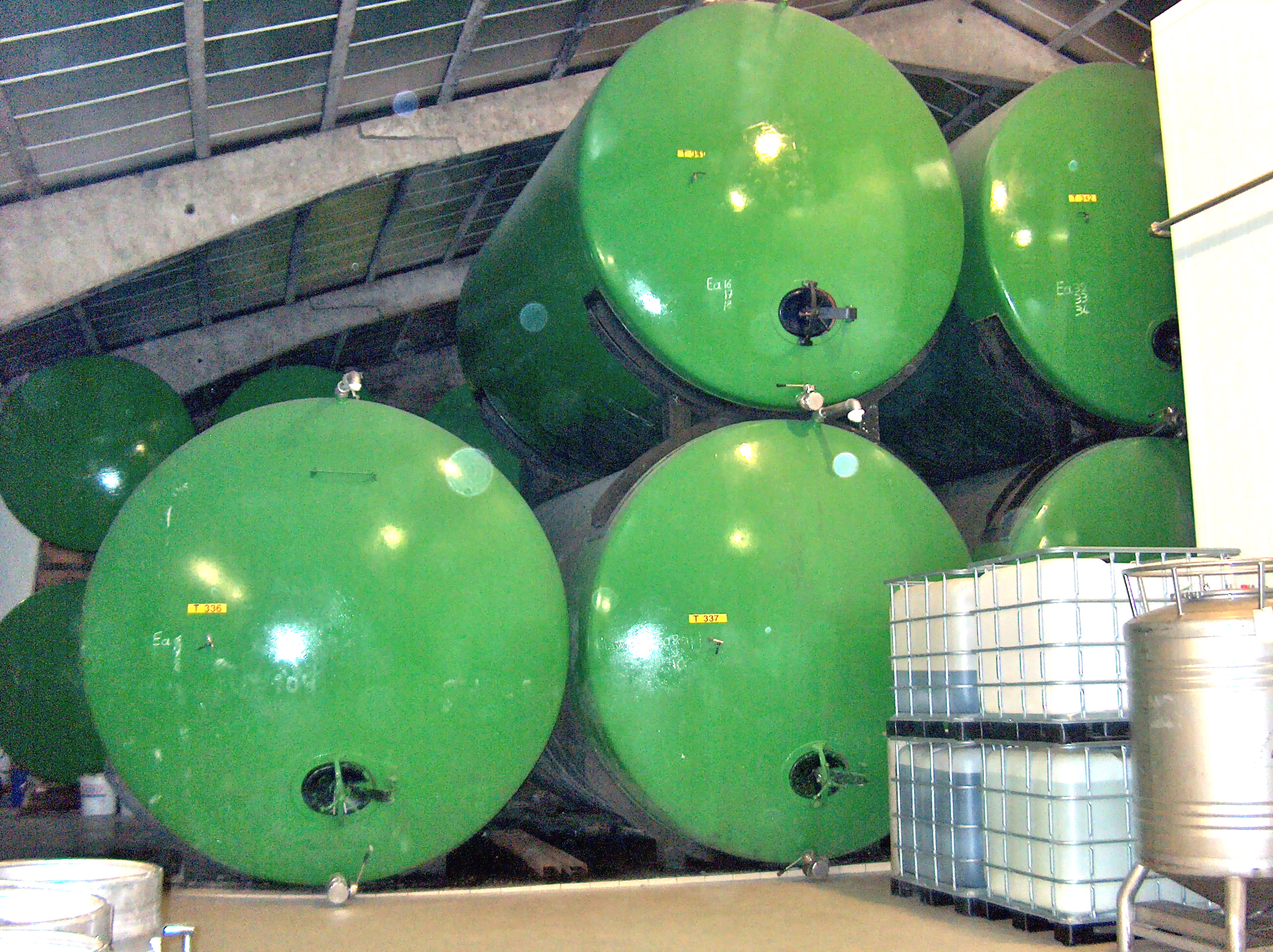 Aluminium beer barrels in brewery Lindemans